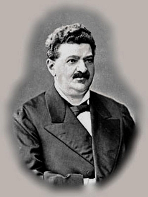 Mavrikiy Osipovich Wolff (1825—1883), a prominent Russian publisher, bookseller and educator